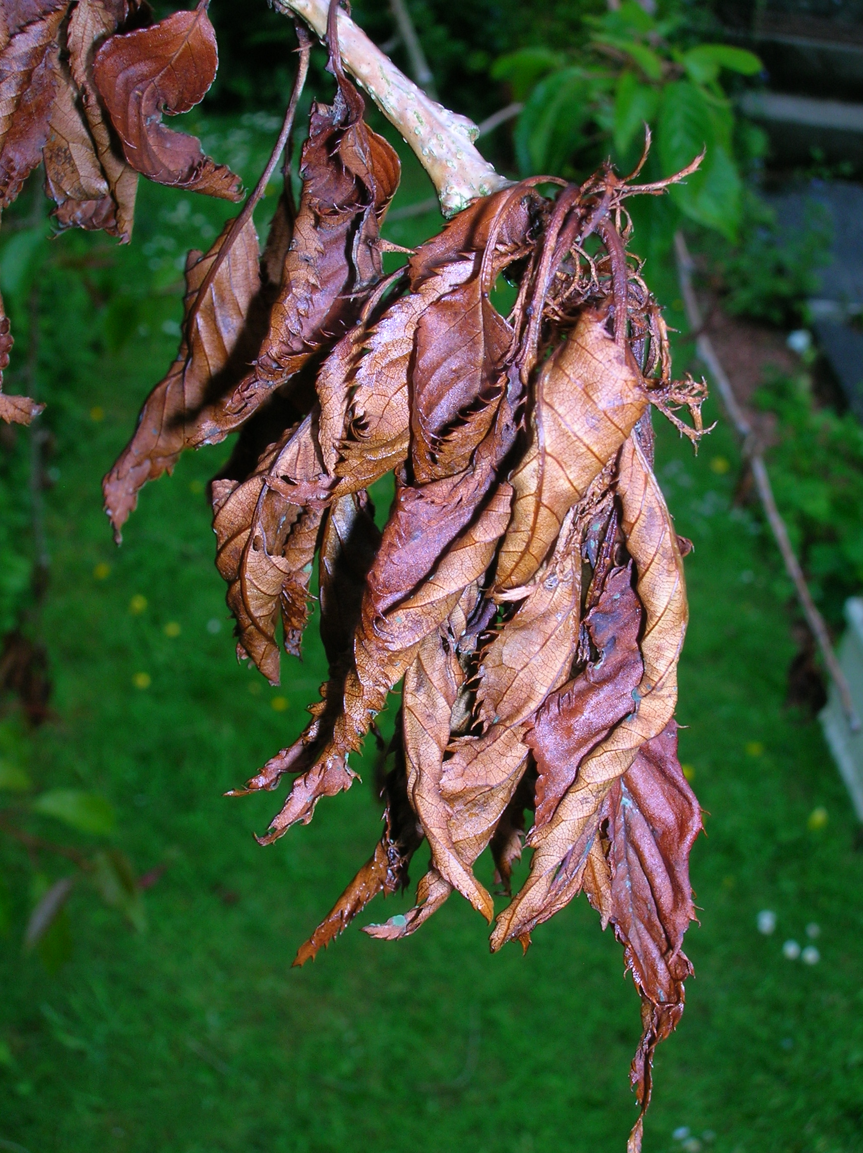 Leaf death due to bacterial canker (Pseudomonas syringae) on Cherry (Prunus avium), Chapeltoun, North Ayrshire, Scotland.